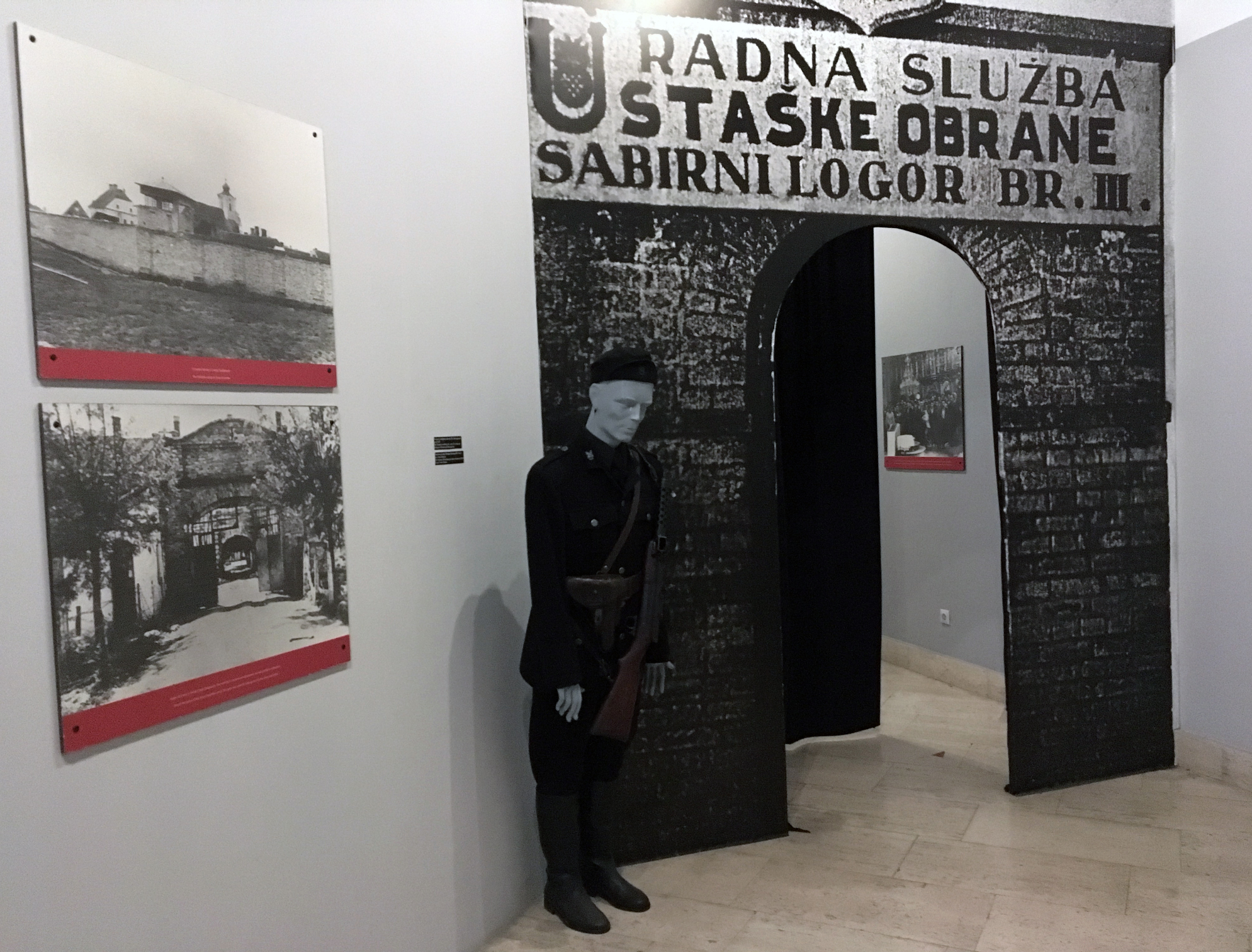 An exhibit on Jasenovac concentration camp from Museum of Republika Srpska